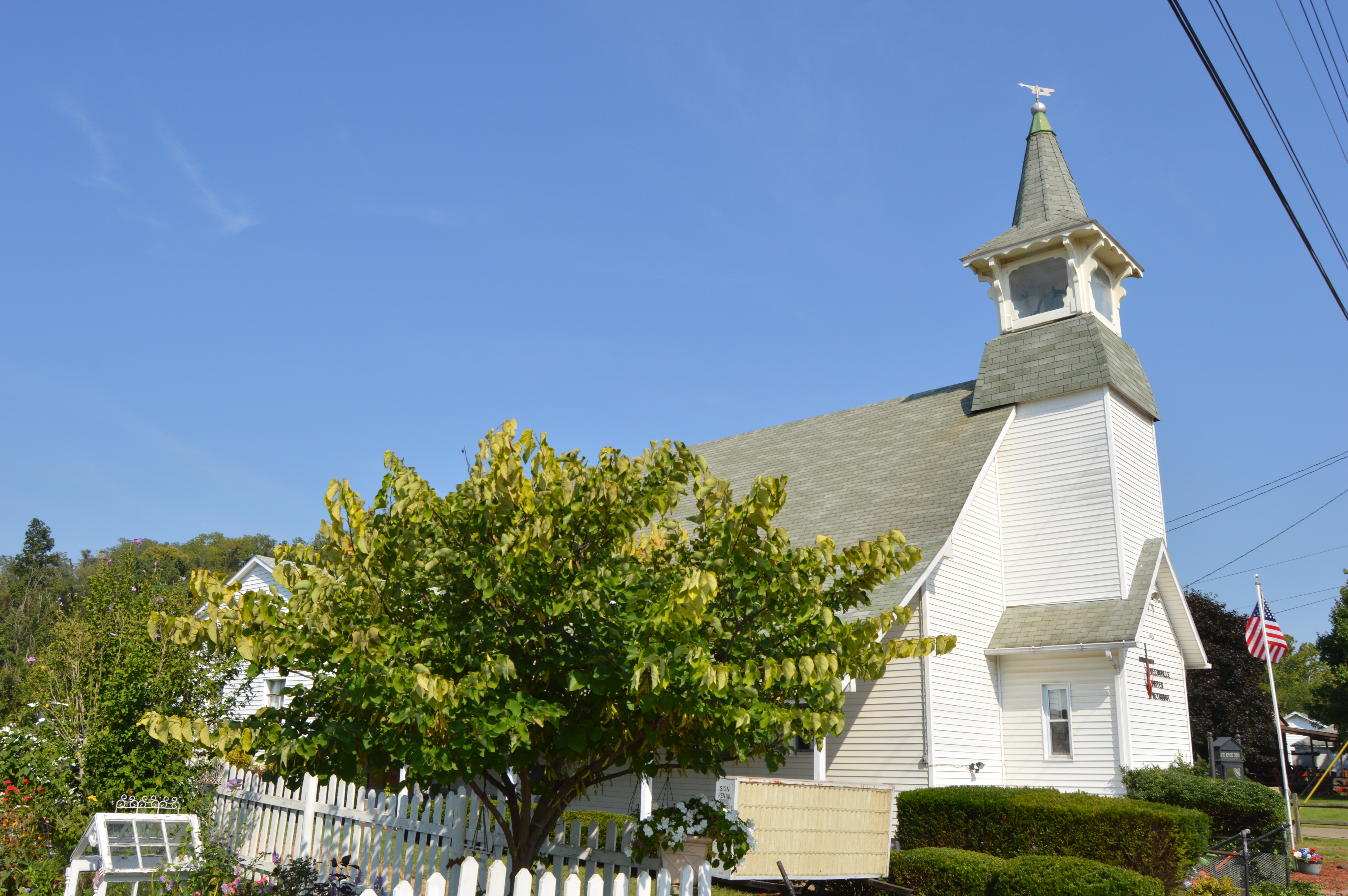 Southern side and front of the Reedsville United Methodist Church, located at 66158 State Route 124 in Reedsville, Ohio, United States.